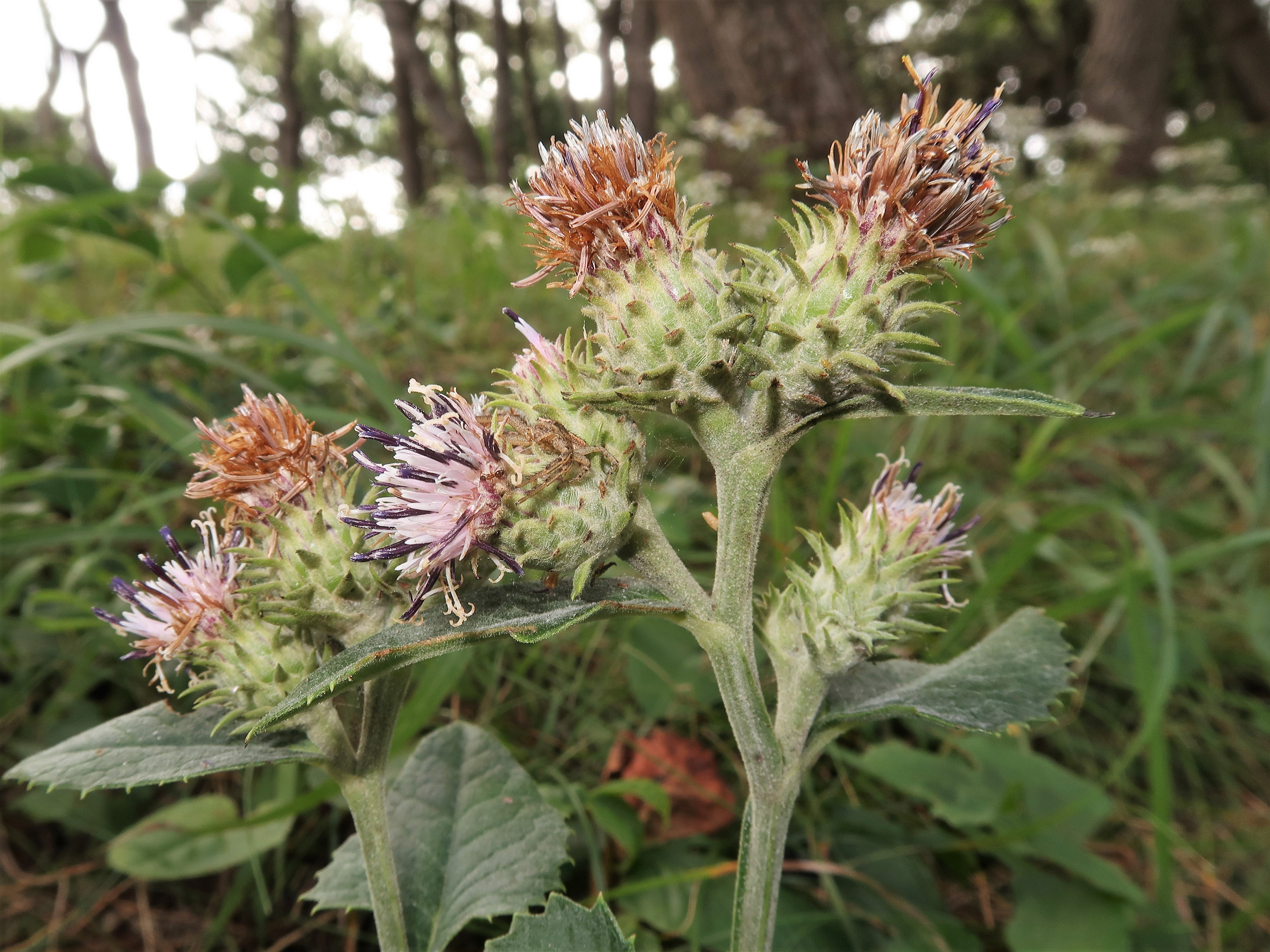 Saussurea hosoiana, Rokkasho village, Aomori pref., Japan